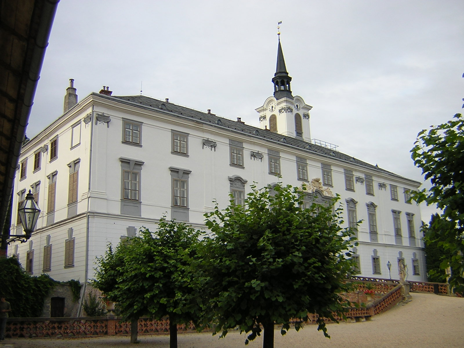 Château in Lysice, Czechia, Europe.